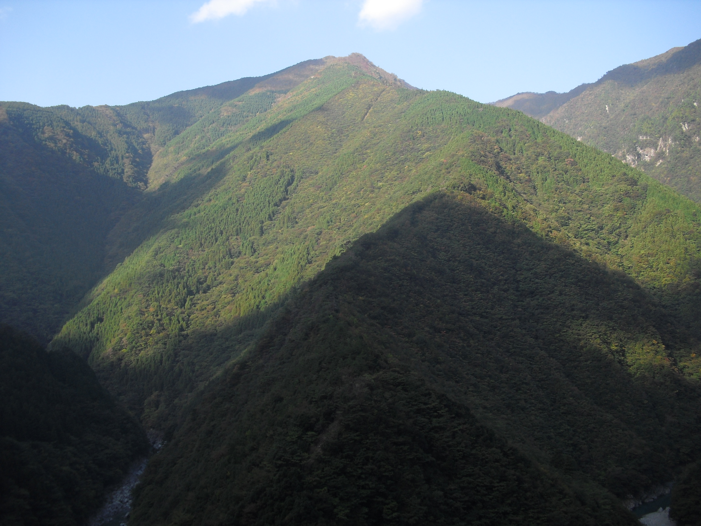 Mount Kunimi (Kunimi-yama) as seen from the east in Miyoshi, Tokushima Prefecture, Japan.